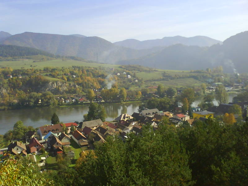 Village Strečno